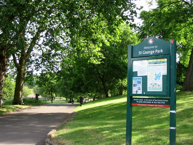 Entrance to St. George Park. St. George Park is a park on the eastern edge of the inner city in Bristol, England.